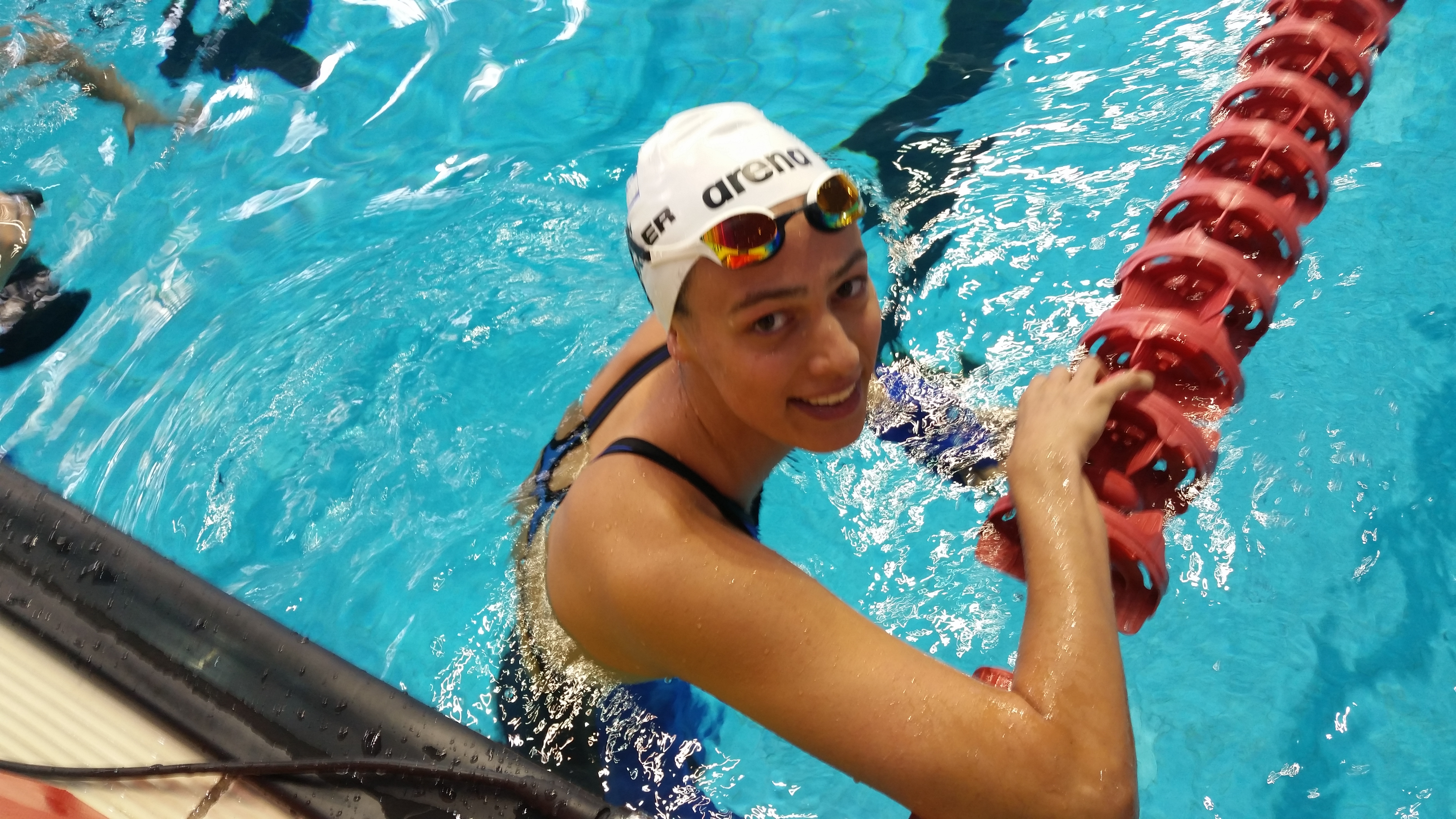 Zohar Shikler, Israel Swimming Championship, 2016